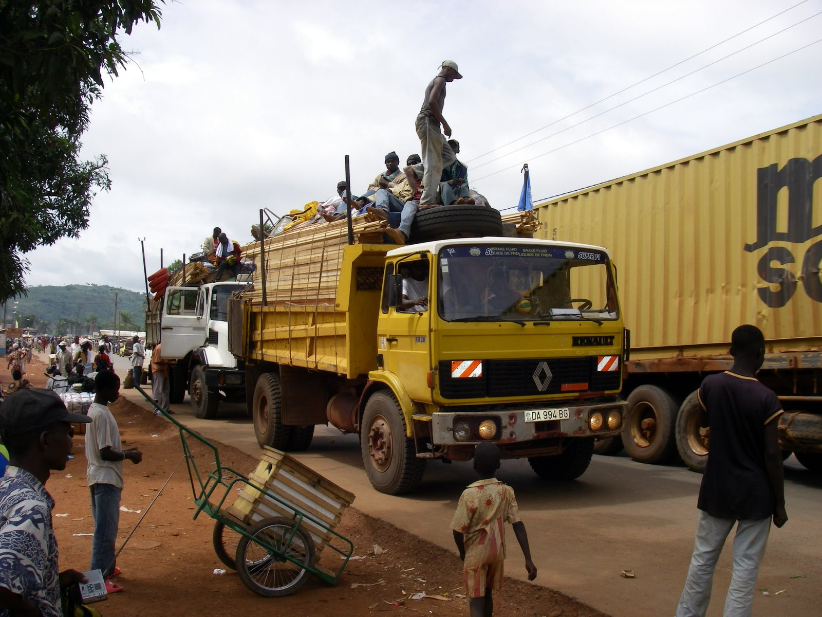 Setting off with 2 trucks, jeeps and material in Bangui; © OCHA